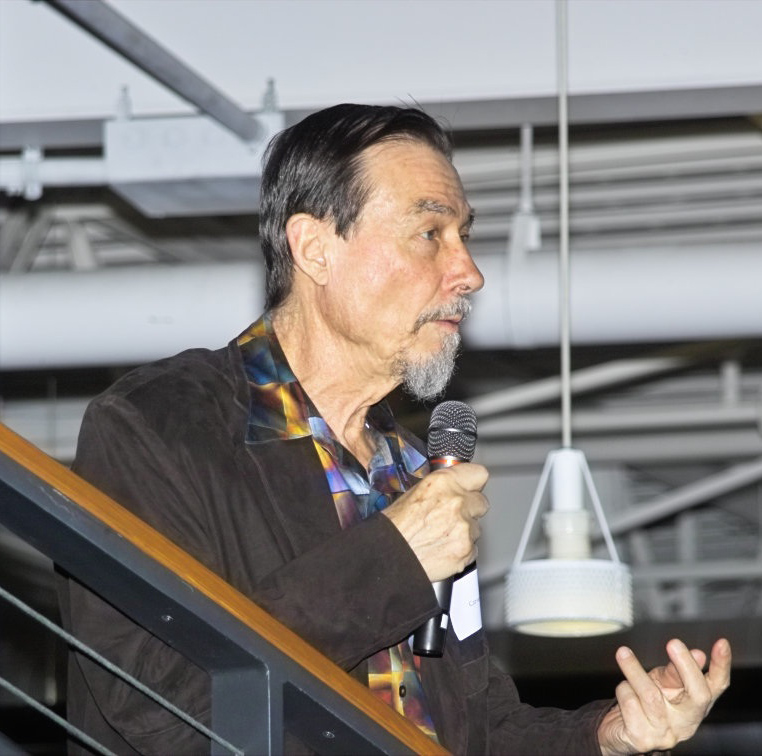 Carver Mead addressing attendees of George Gilder's launch of his book The Silicon Eye, at the Computer History Museum, Mountain View, CA, April 2005.